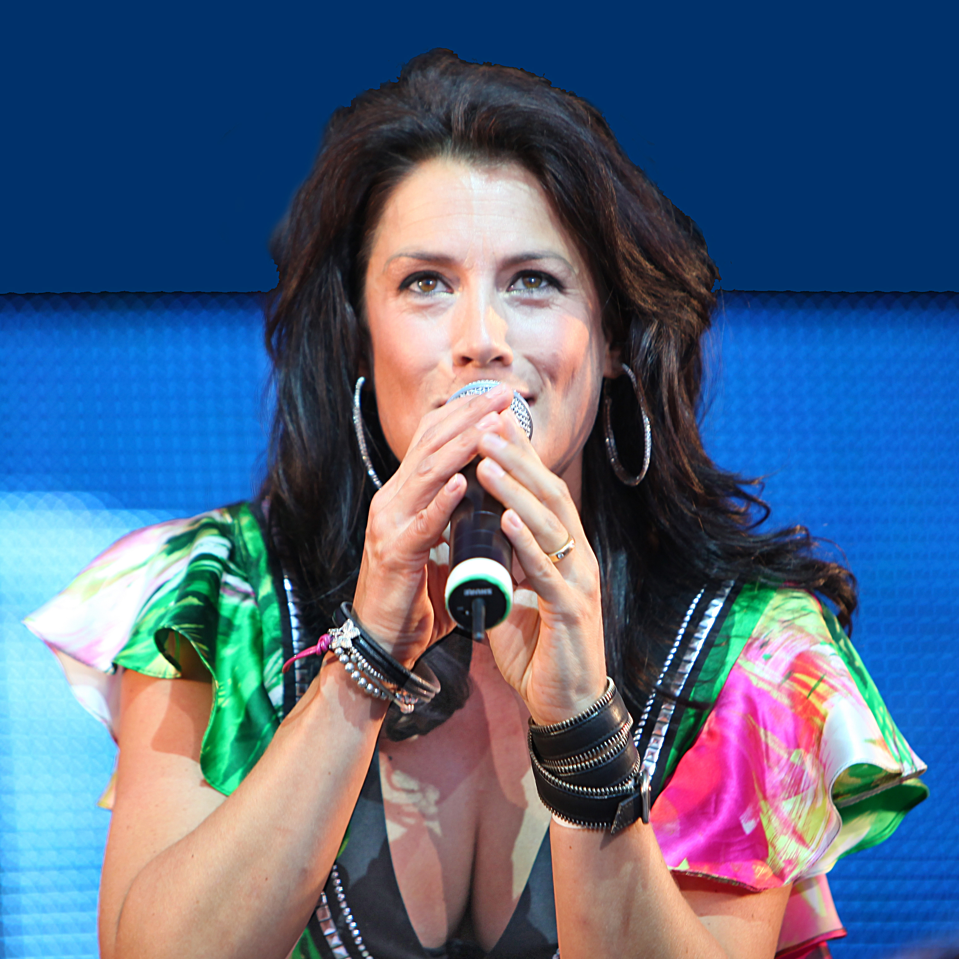 Swedish musician Jill Johnson. Photo taken during Stockholm Pride 2009.